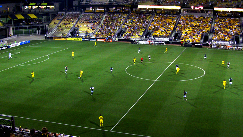 Columbus Crew playing at home against Portland Timbers on Jult 23 during the 2011 MLS season. The Crew won 1–0.